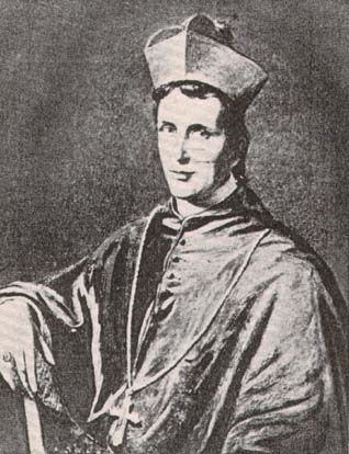 Angelo Ramazzotti (1800-1861), Patriarch of Venice; Servant of God